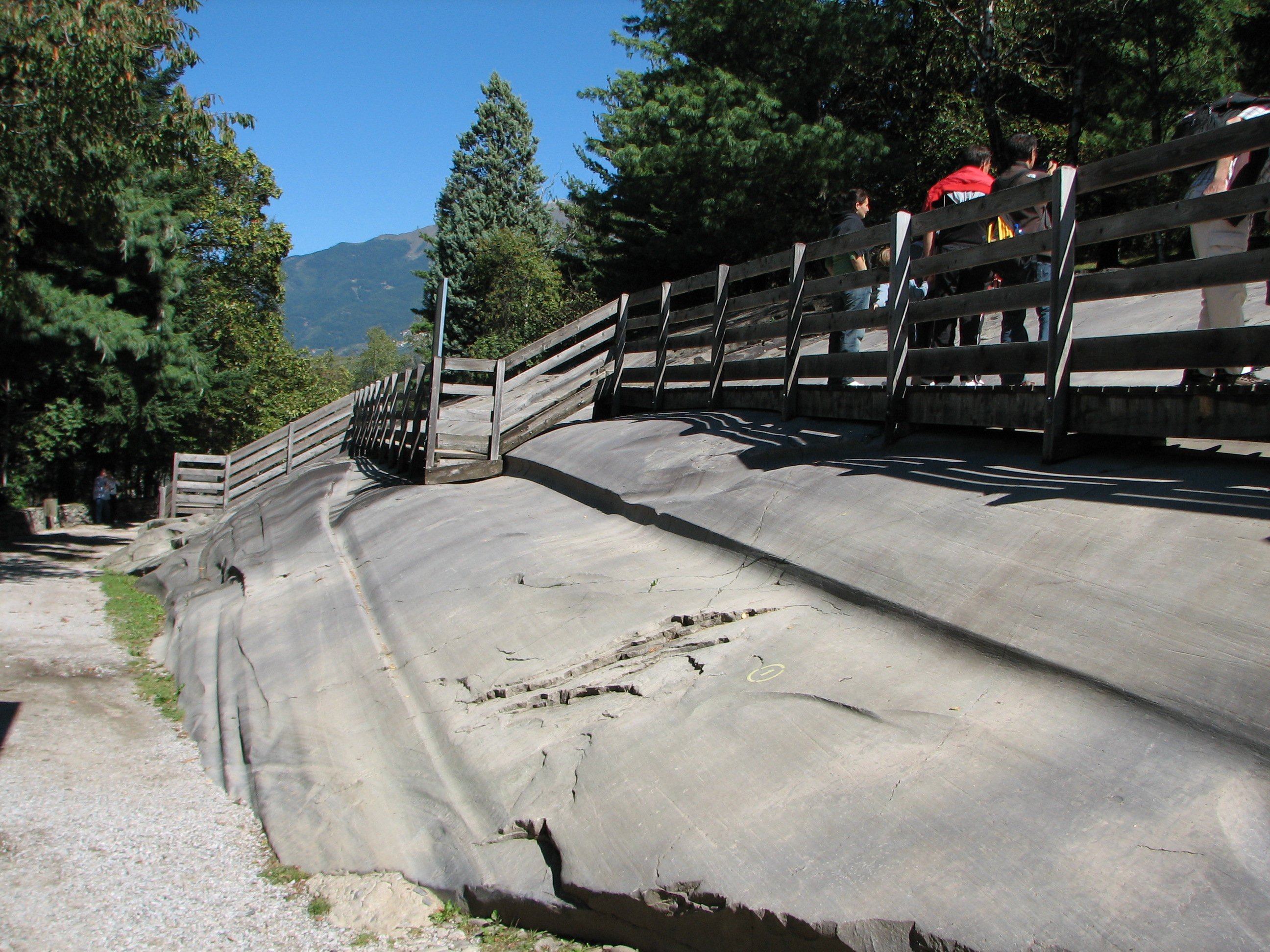 Rock number 1 at Parco nazionale delle incisioni rupestri di Naquane' Capo di Ponte, Val Comonica